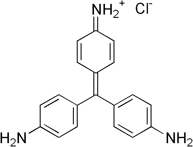 chemical structure of pararosaniline